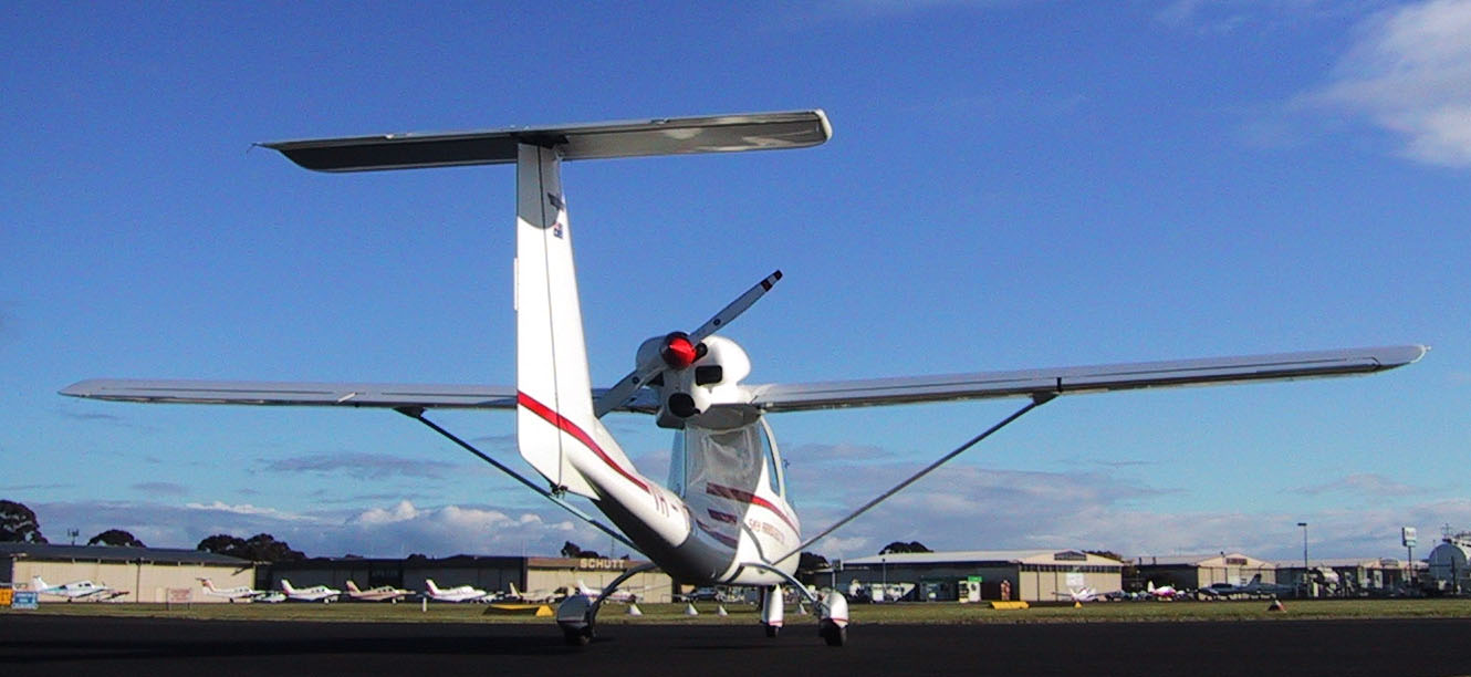 Sky Arrow 650 TCN Photo by Morgan Leigh. 2006.